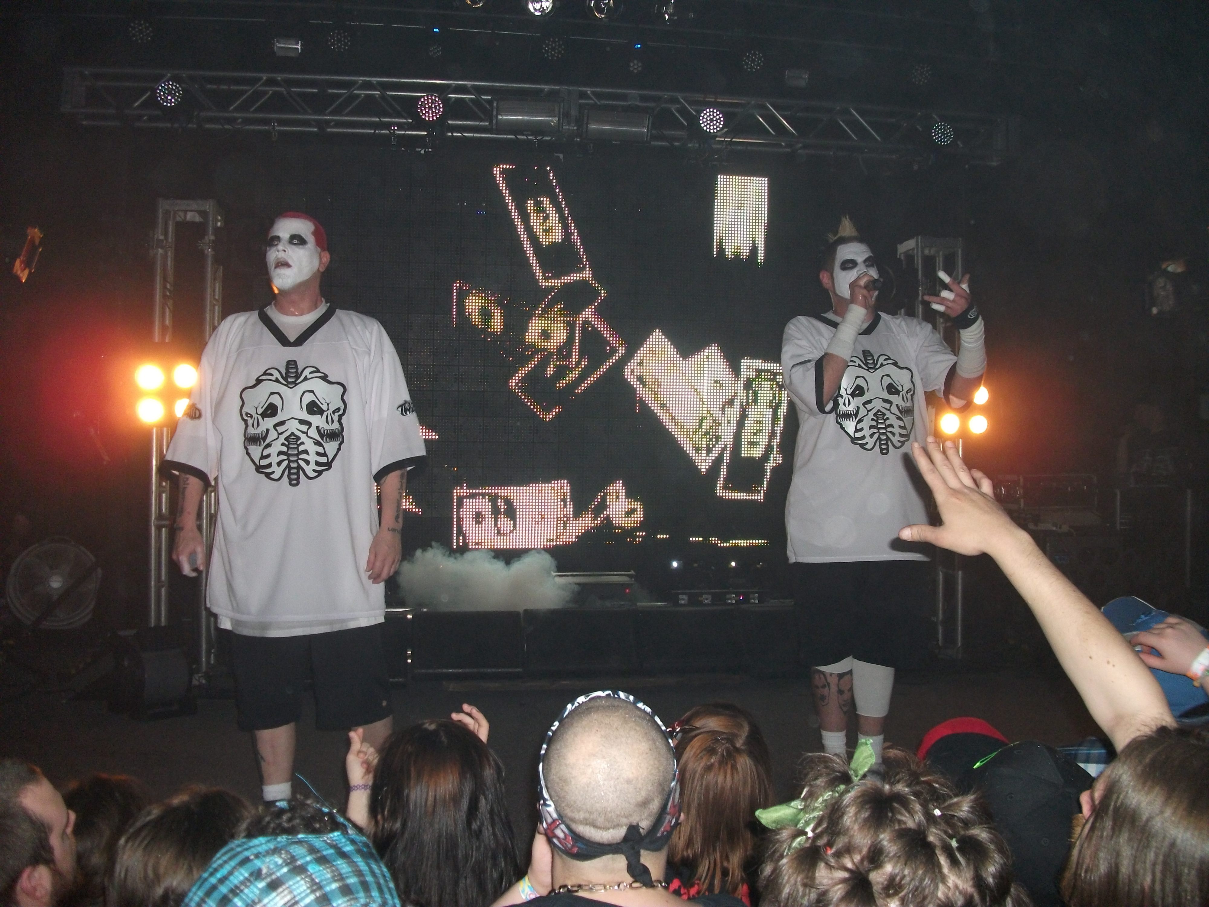 Twiztid on the Abominationz tour show in Chesterfield, MI on April 27th, 2013.